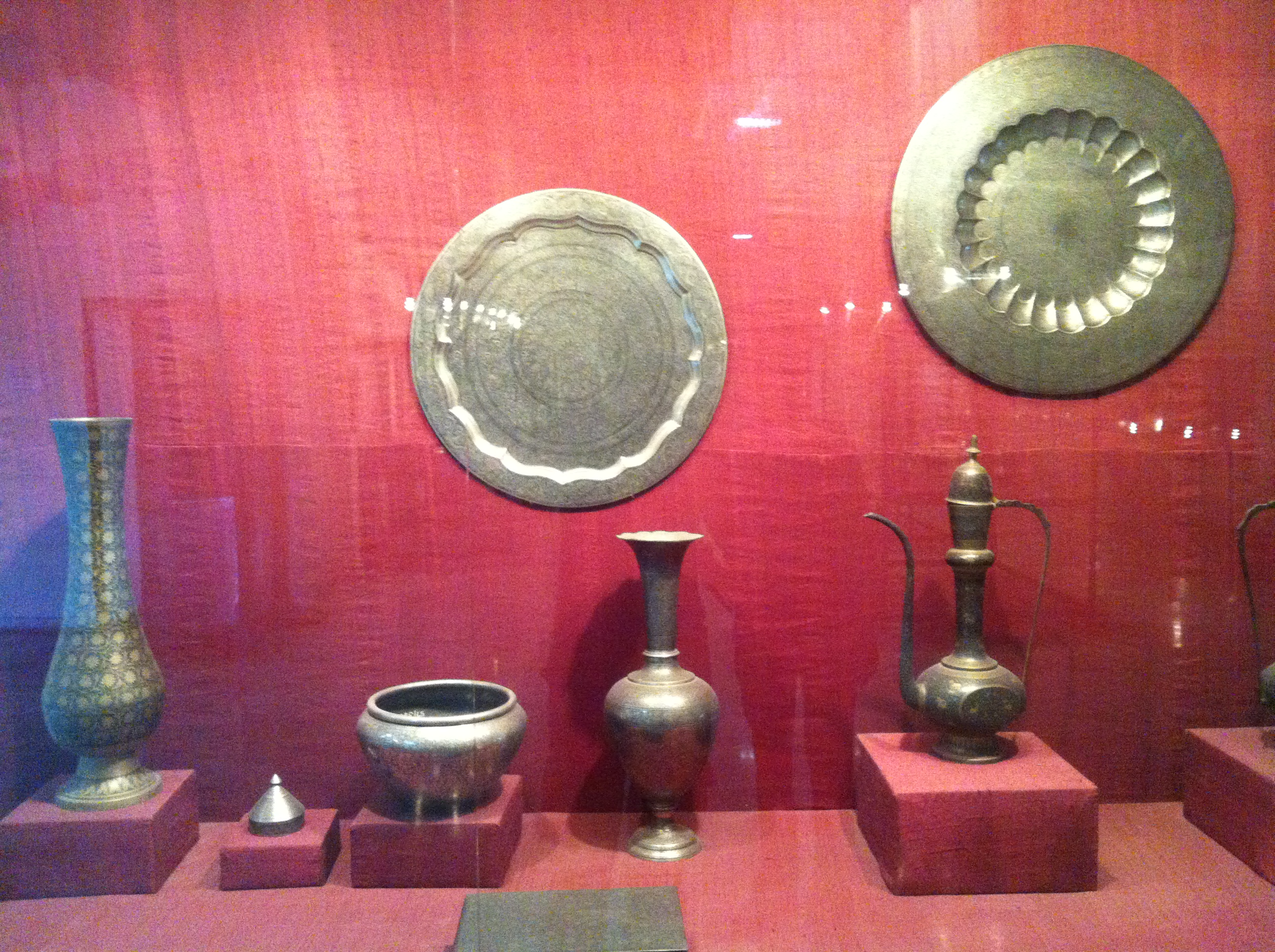 Bidriware